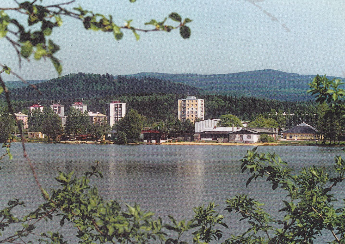 View of Nová Role over the pond